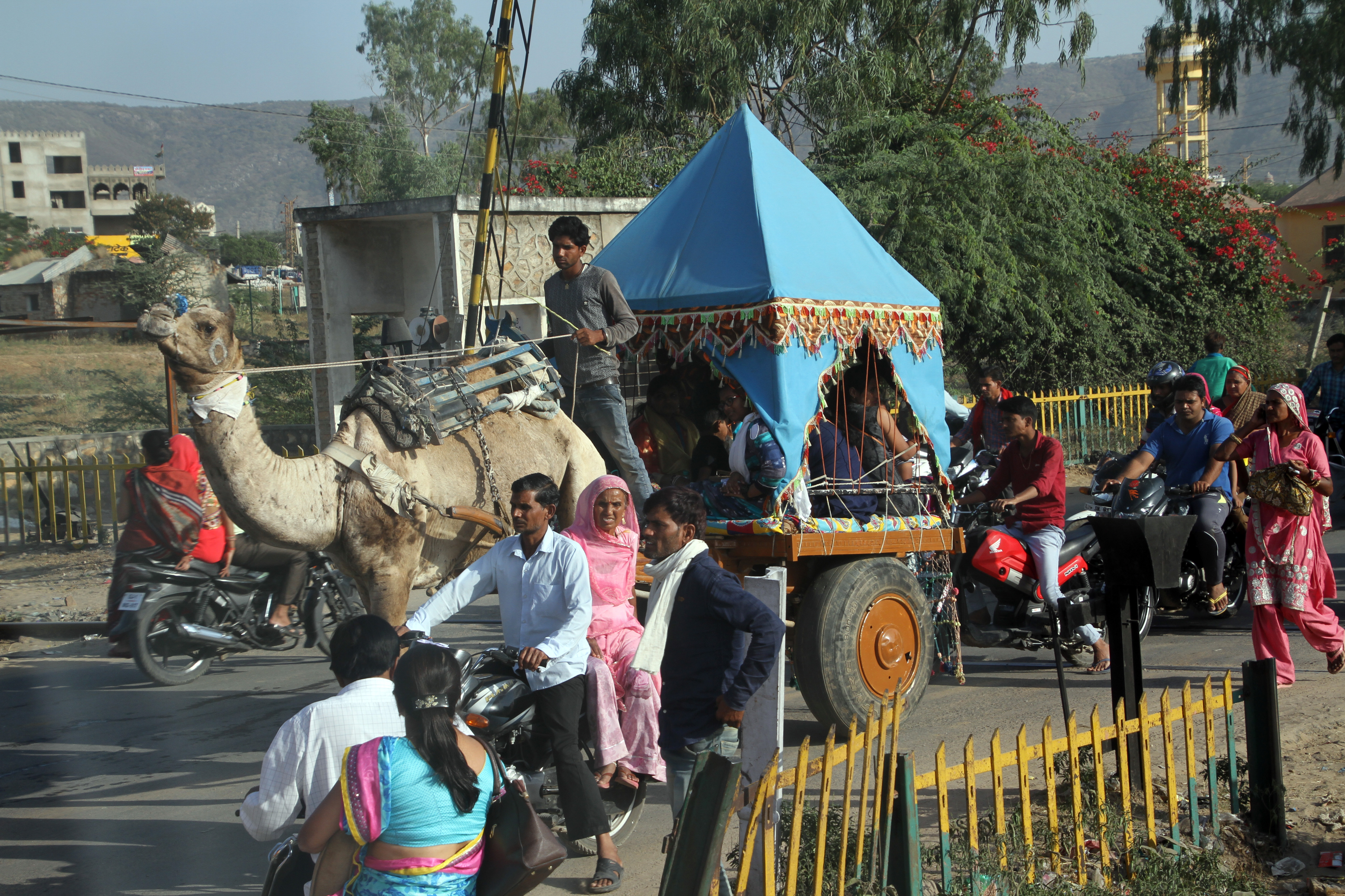 Pushkar Fair